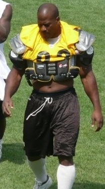 This picture was taken during Pittsburgh Steelers training camp practice on August 17, 2008 at Saint Vincent College in Latrobe, PA.